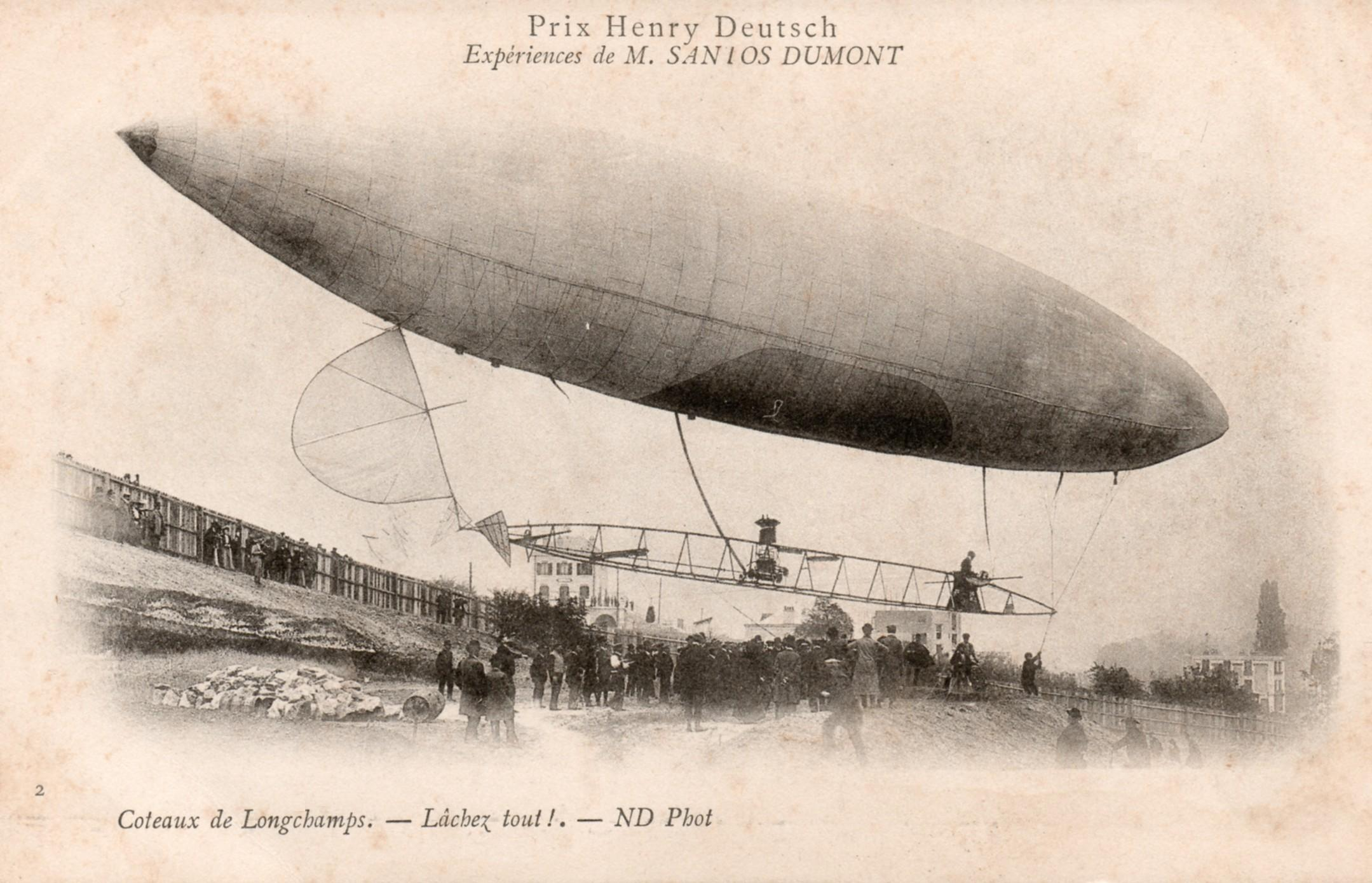 Airship Santos Dumont (Paris - France) in 1901 - vintage postcard - personal collection, from vintage postcard published by “ND Phot” in 1902